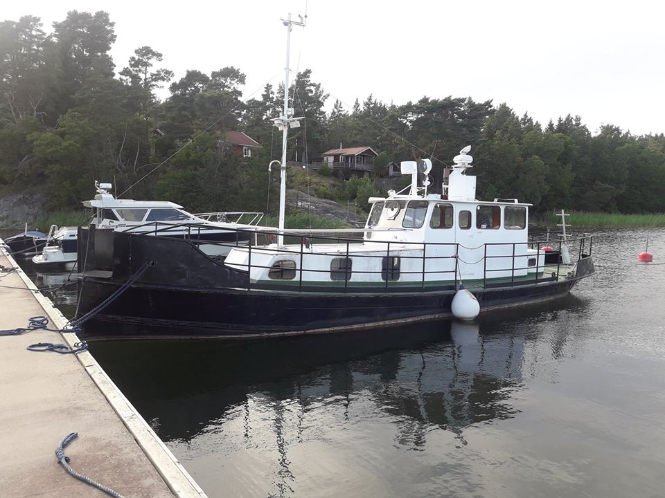 Moälven, tugboat located in Sweden. Built for Mo och Domsjö AB (MoDo) in 1921 by Jerfeds Mek. Verkstad AB, Järved, Sweden